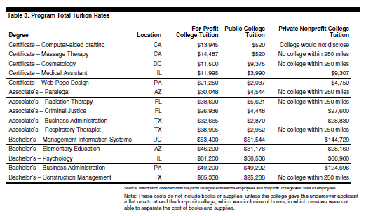 Table 3 from the August 4, 2010 GAO report. Randomly sampled For-Profit college tuition compared to Public and Private counterparts for similar degrees.